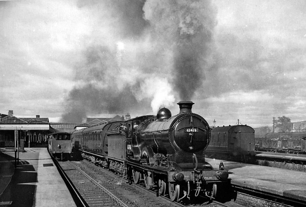 A Dundee - Edinburgh express leaving Stirling. View northward, towards Perth, Dundee etc.; ex-Caledonian Glasgow (Buchanan St.) - Perth etc. main line. This was the Edinburgh (Princes St.) portion of the 12.00 Dundee West - Glasgow and Edinburgh service, which running entirely on ex-Caledonian/LMS metals would not be expected to have ex-North British motive-power, but here splendidly clean ex-NB D30/2 'Scot' 4-4-0 No. 62426 'Cuddie Headrigg' is setting off to Princes Street, via Larbert.